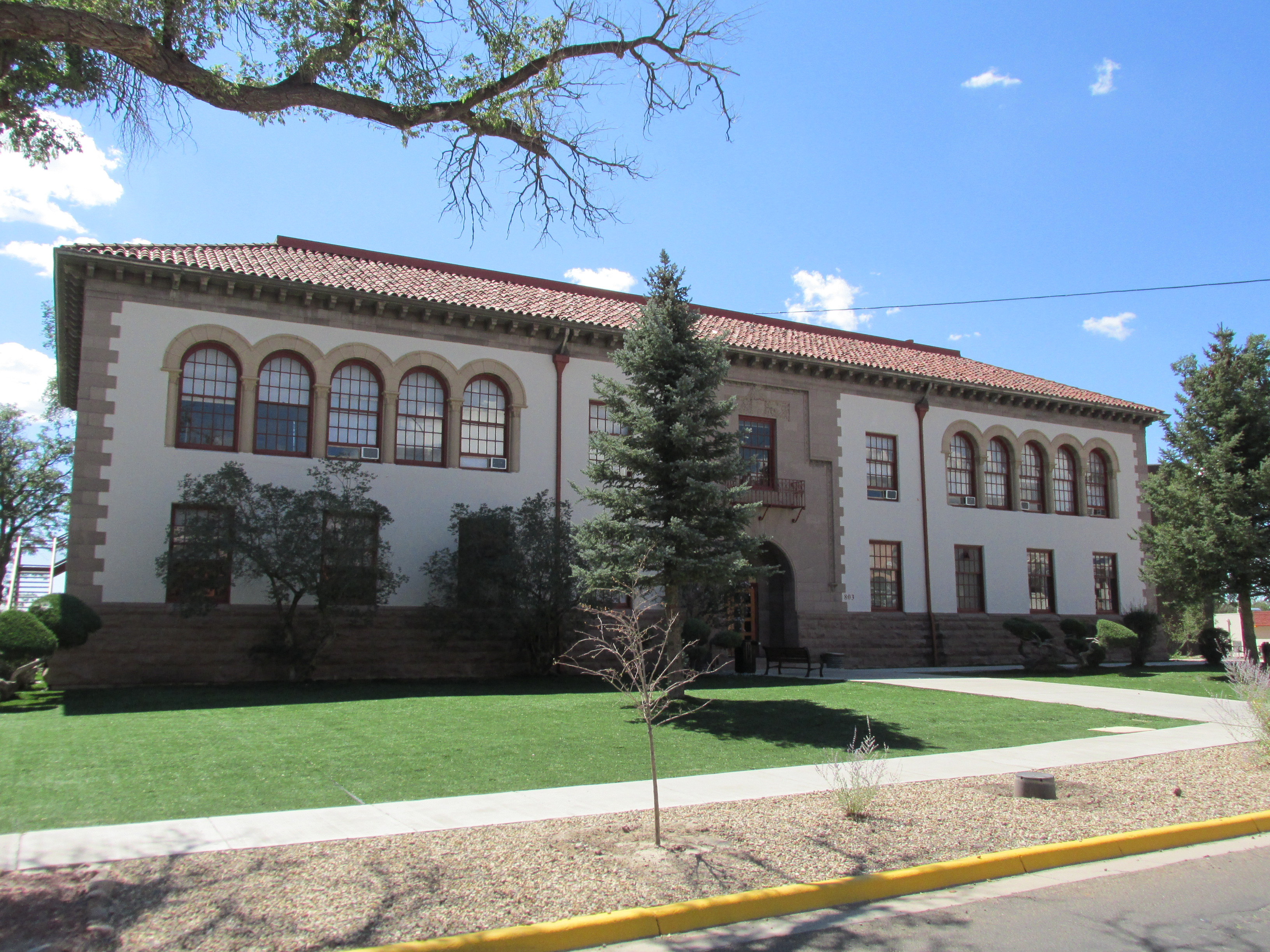 Rogers Administration Building, Las Vegas New Mexico